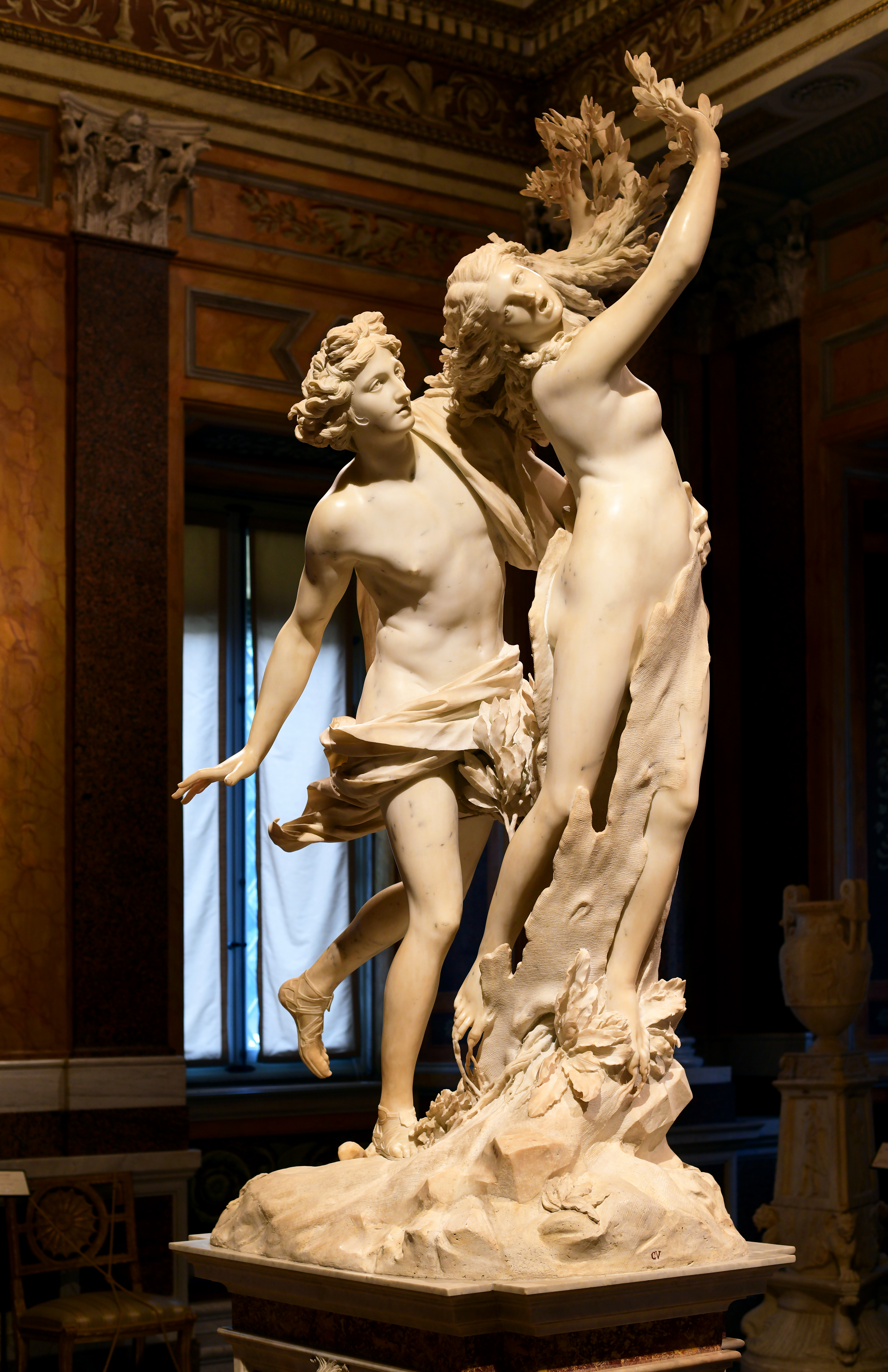 Apollo and Daphne (Bernini)